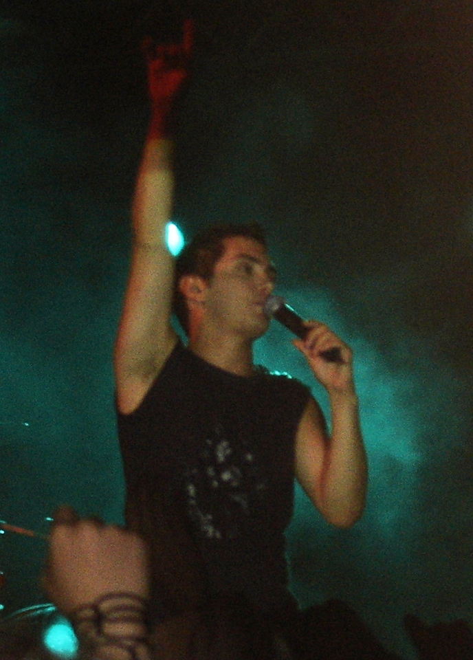 The famous Greek singer, Michalis Hatzigiannis, during a concert in Katerini.